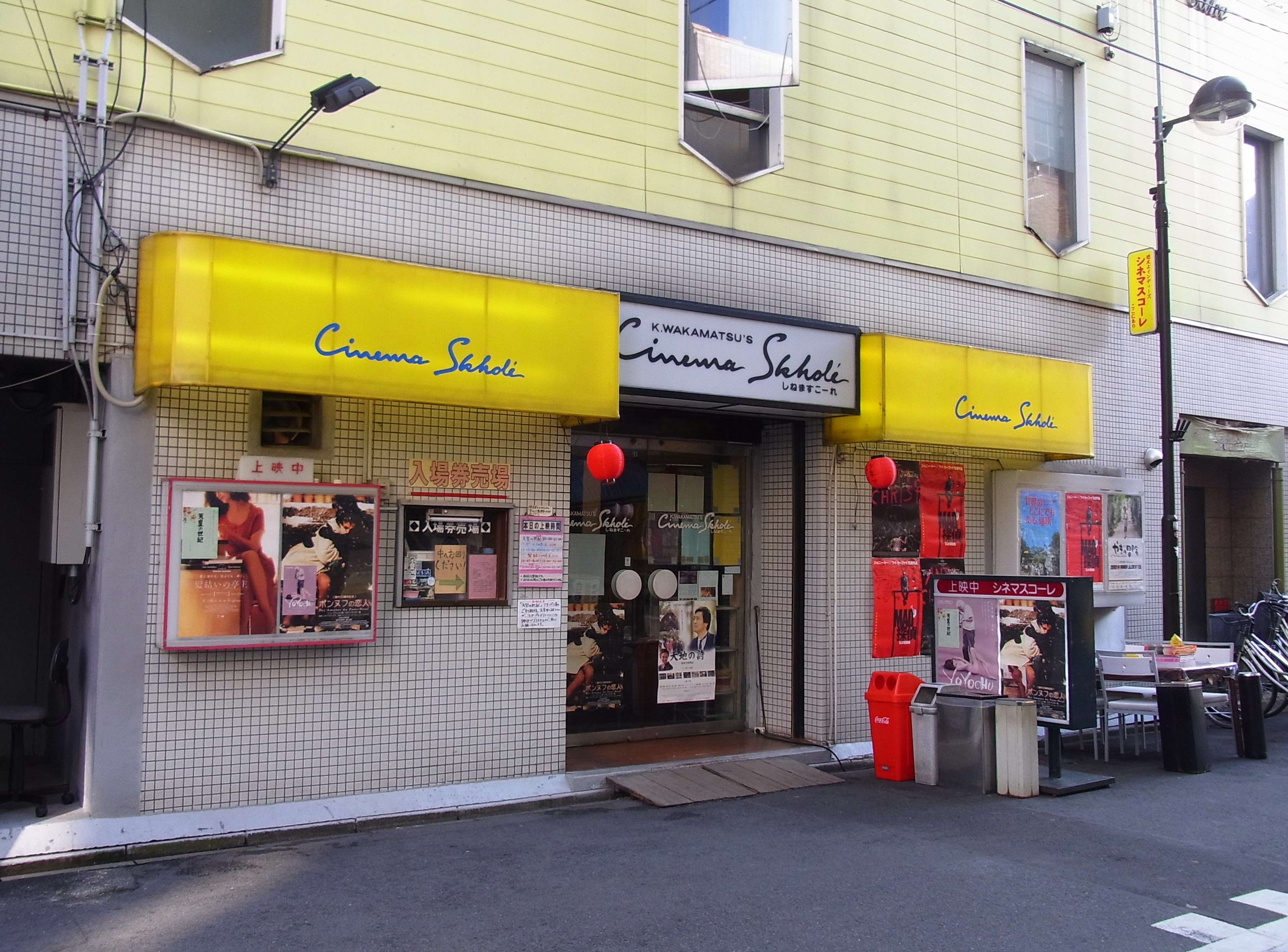 Cinema Skhole in Nakamura-ku ward, Nagoya.